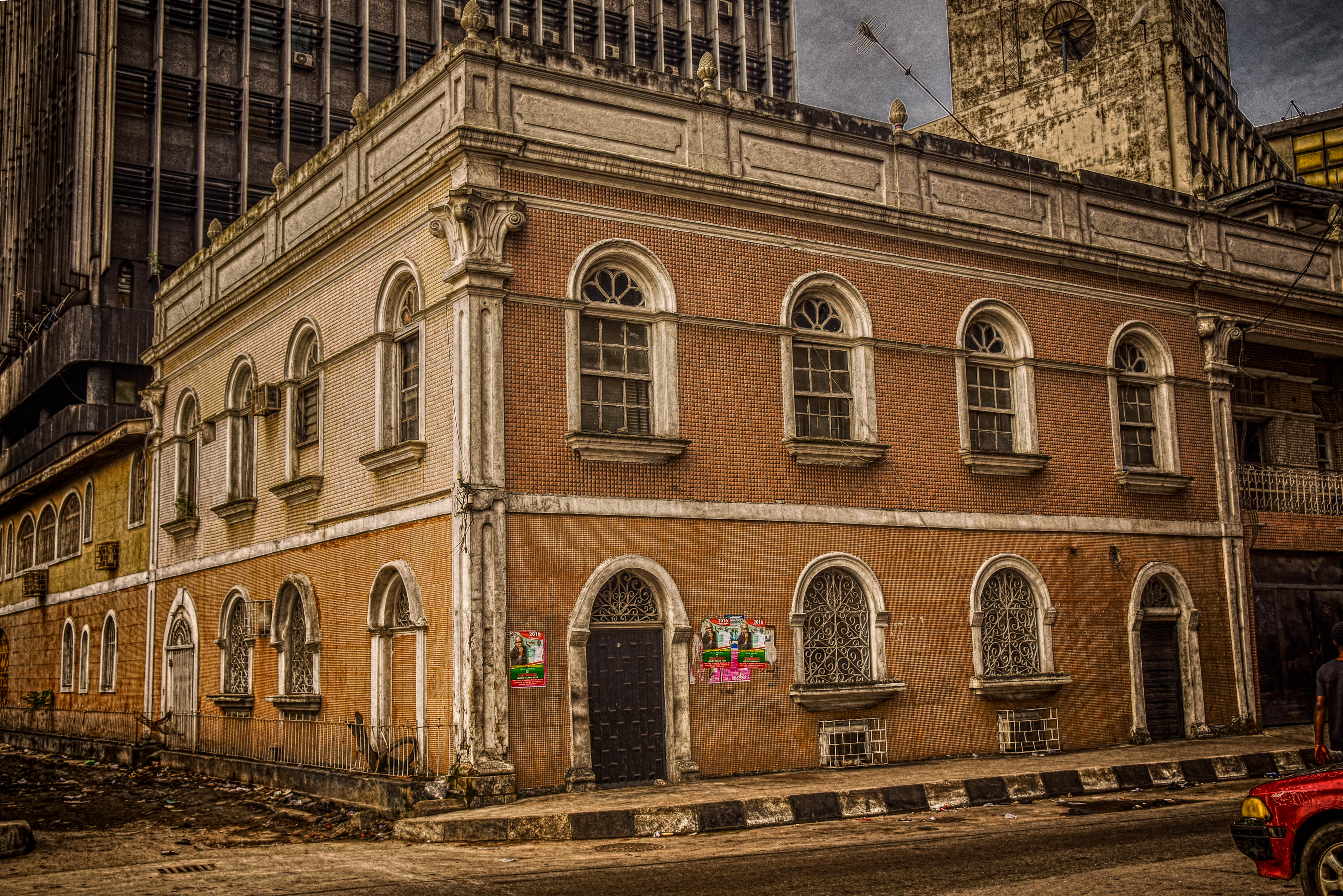 Picture of Water House, Kakawa, opposite sweets sensation, Lagos island. image was made HDR